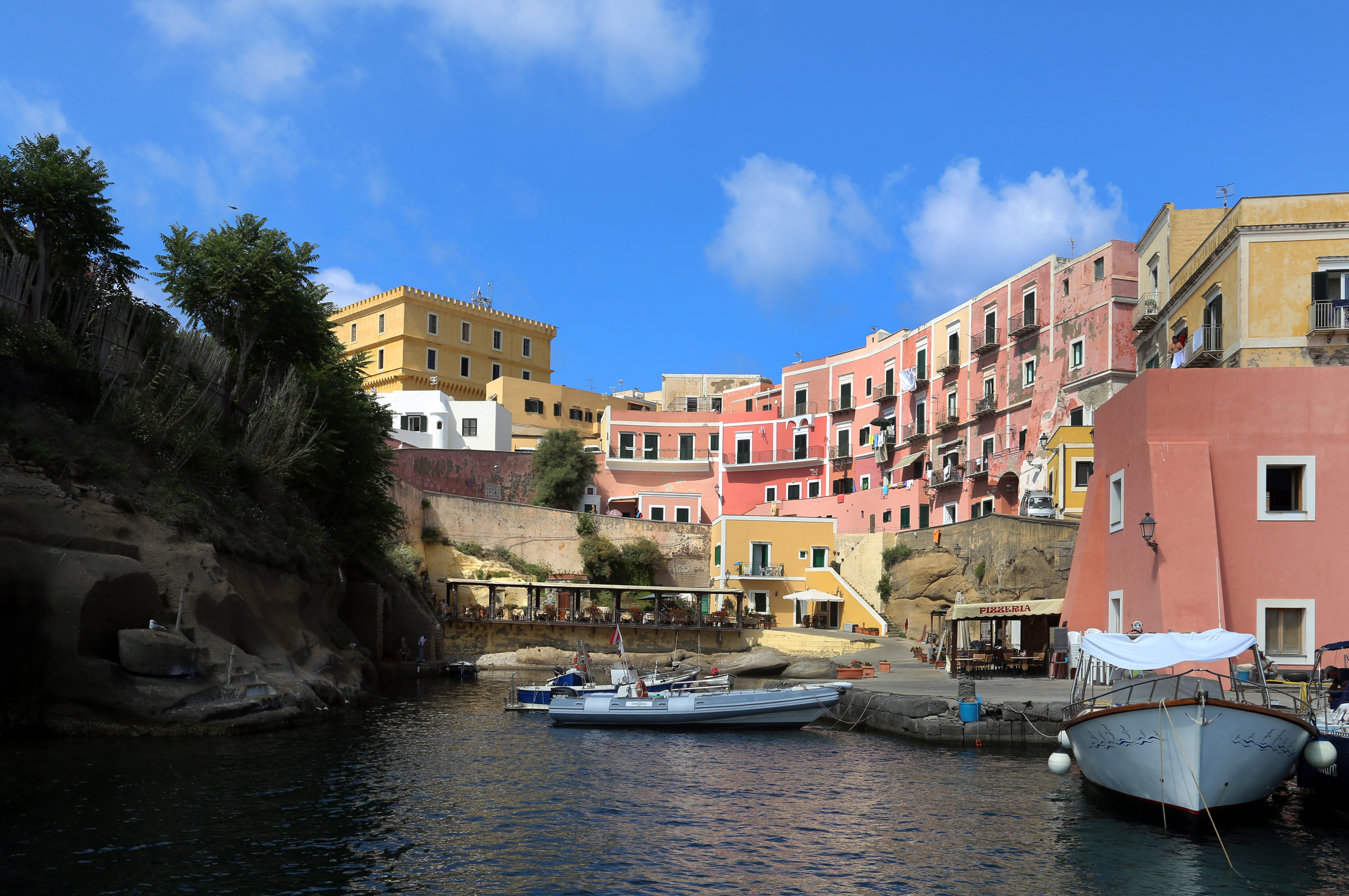 Ventotene